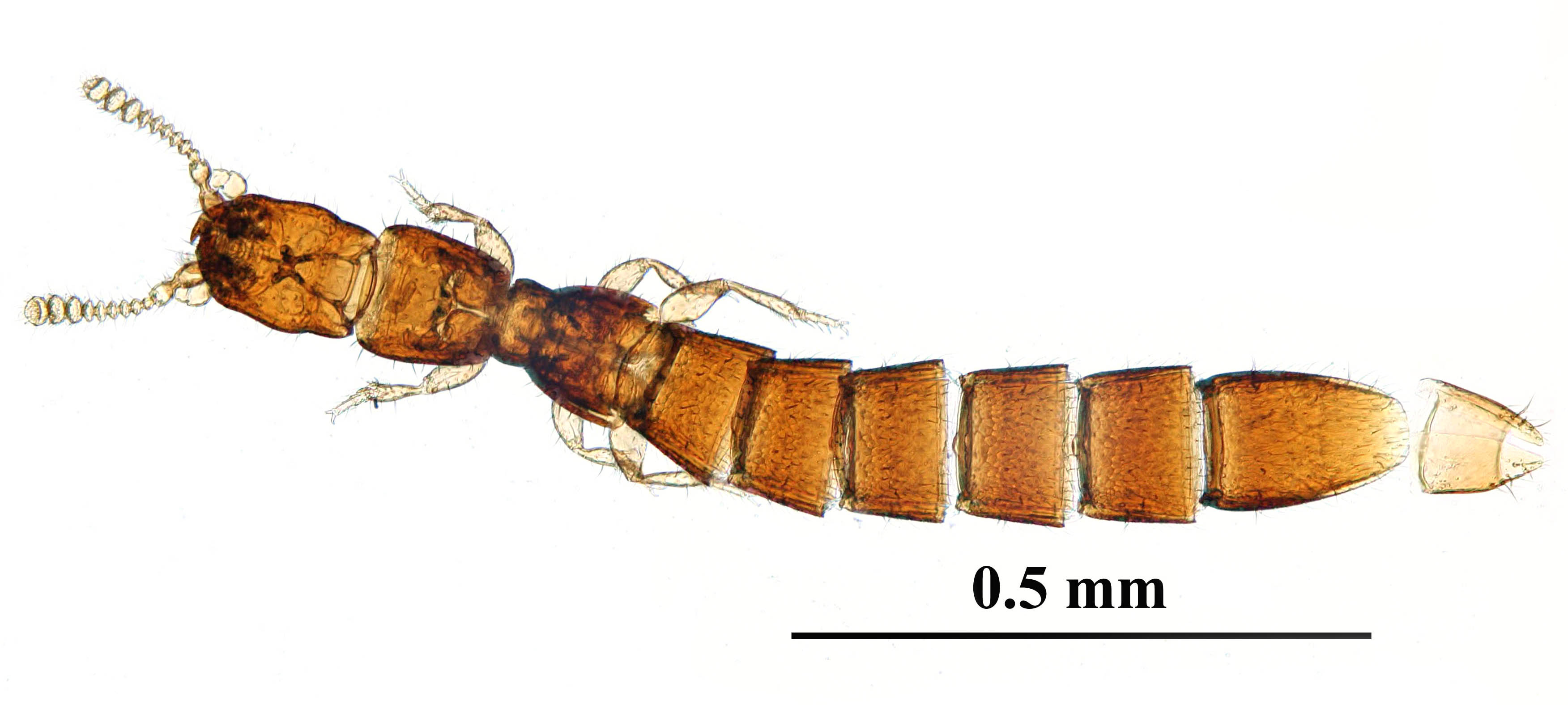 Leptotyphlinae